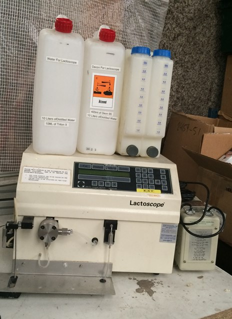 If using this image Images from listings on our website in the laboratory, medical and bioprocessing section. See a range of lab, medical and biomedical equipment from across the globe on our site.